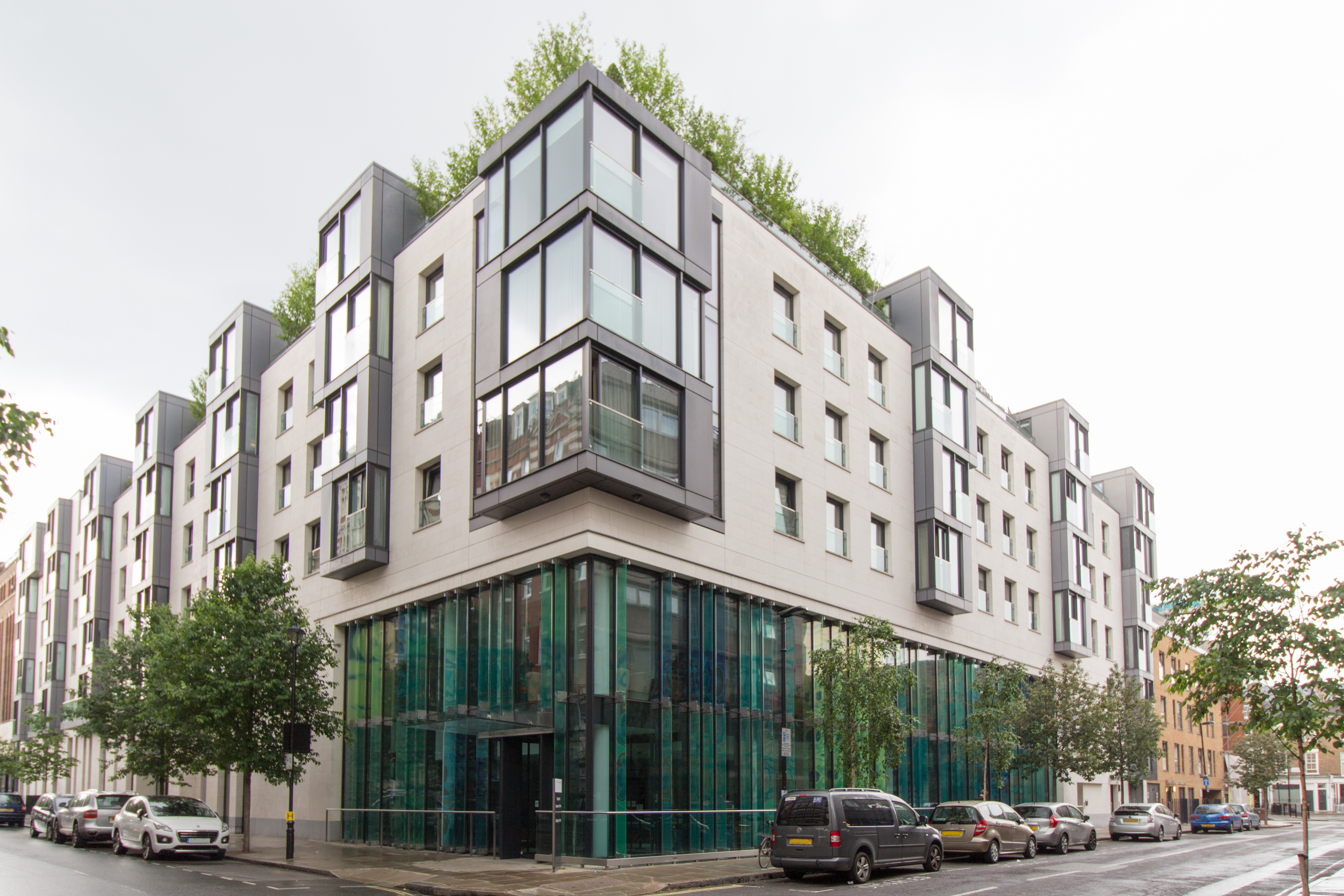 The Royal National Orthopaedic Hospital's central London site, near to Great Portland Street station. The main site is in Stanmore.